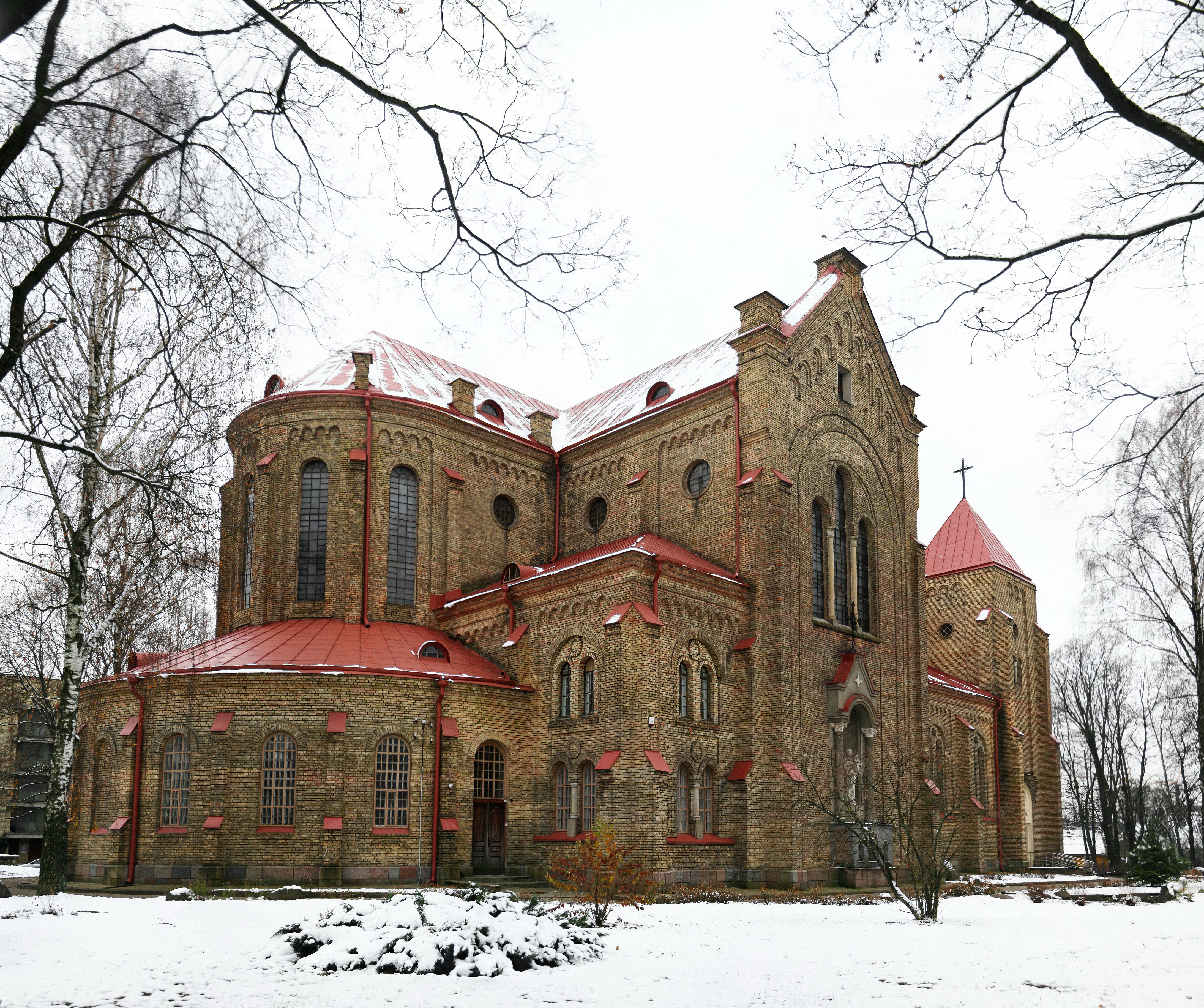 Žvėrynas Church of St. Mary in Vilnius